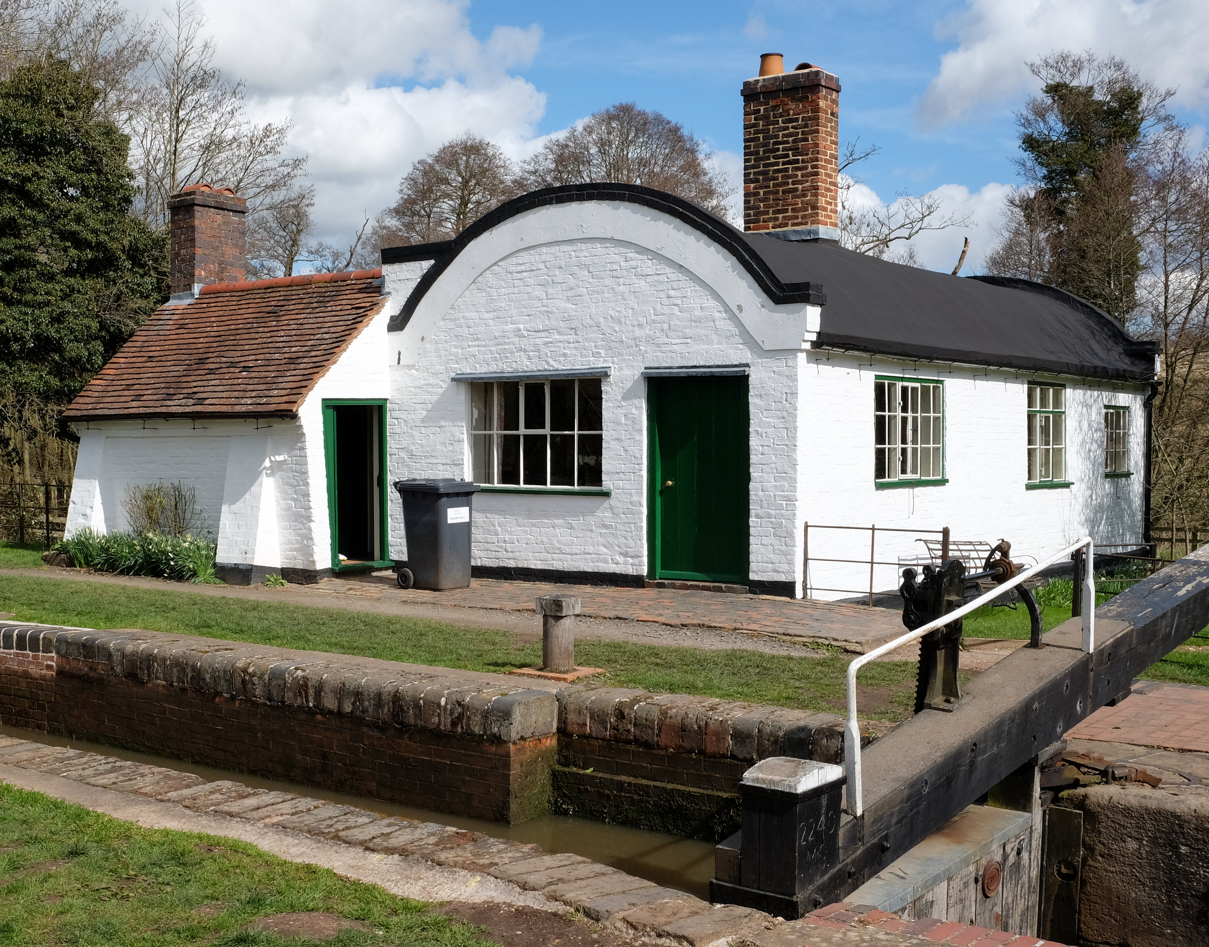 Lock Cottage, Lowsonford, Warwickshire. Known as Lengthsman's Cottage - a Landmark Trust property. This cottage, with a barrel-vault roof, was built about 1816 for the Stratford-upon-Avon Canal and is a Grade II listed building.